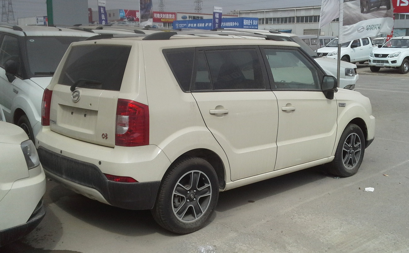 Zhongxing C3 Urban Ark photographed in Zhengzhou, Henan province, China.